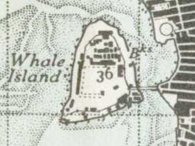 Reproduced from the 1945 OS map